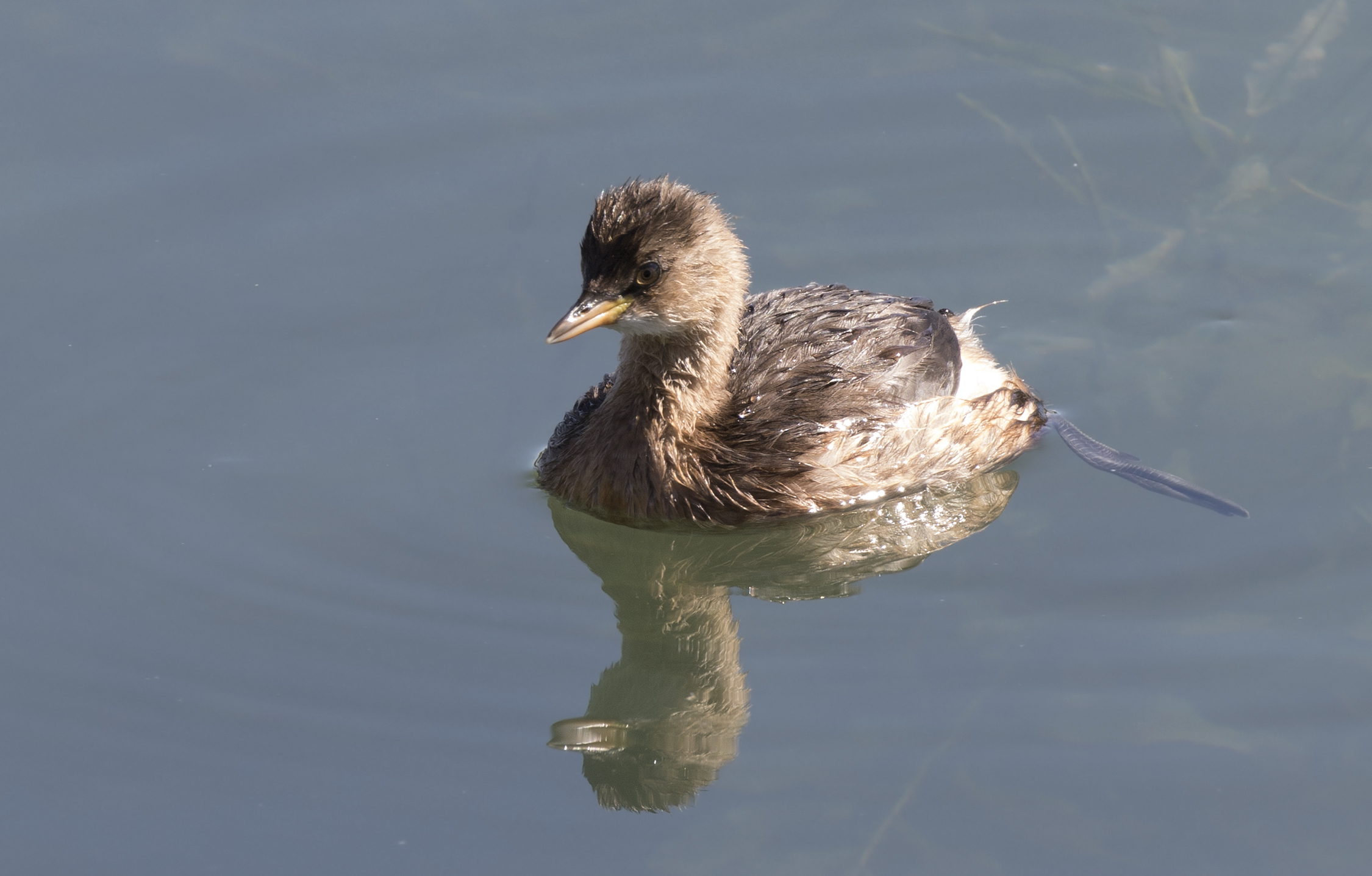 Little Grebe (Tachybaptus ruficollis). Eskibaraj Dam Lake, Seyhan - Adana, Turkey.